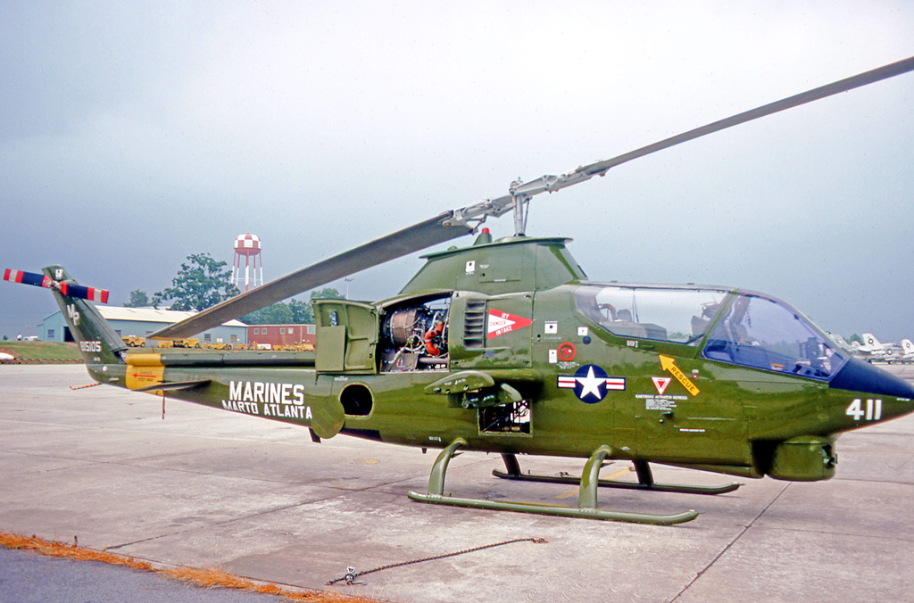 Bell AH-1G Huey Cobra 815105 157216 of HMA-773 squadron at Atlanta NAS in 1976